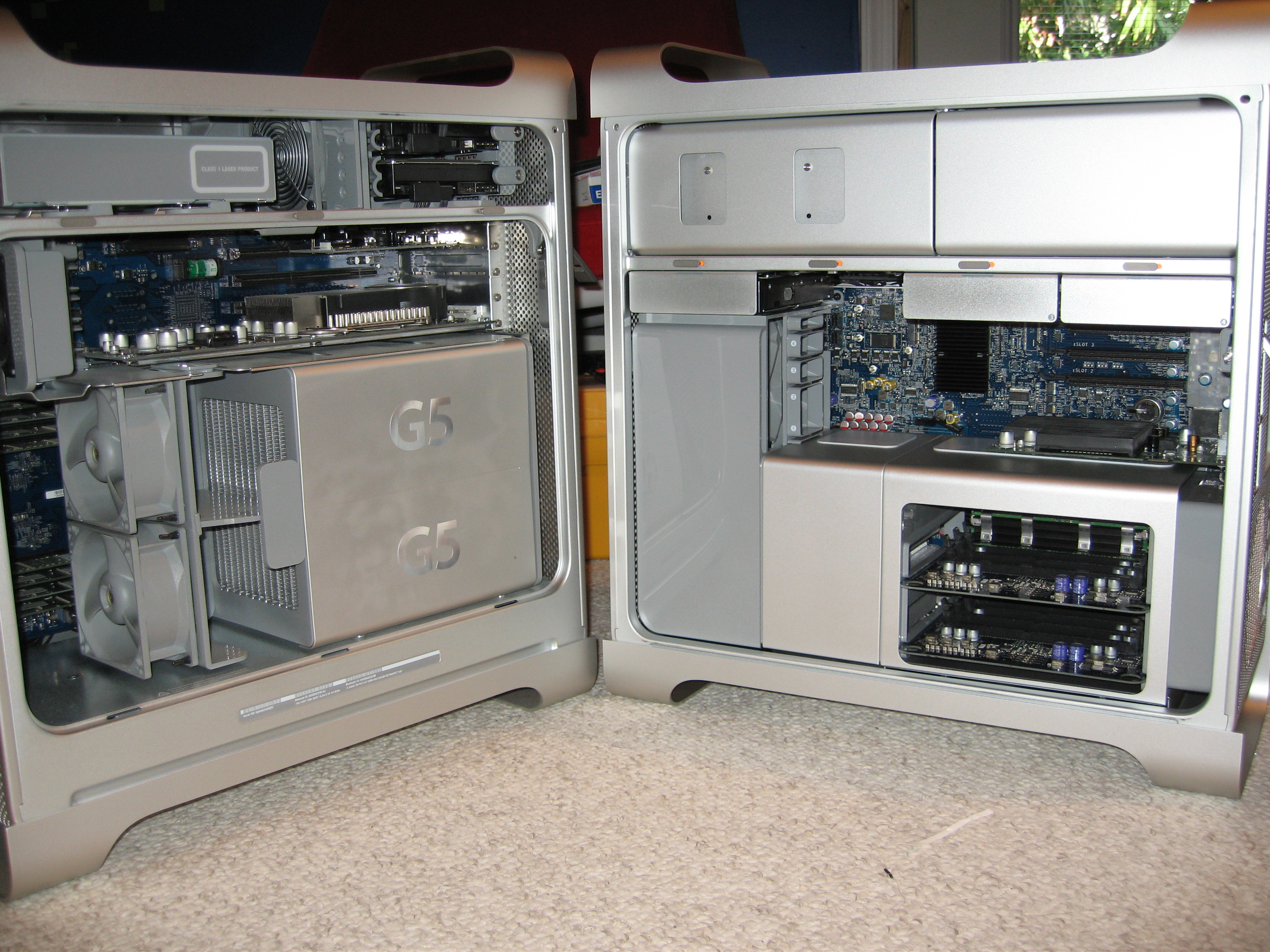 Side view of a Power Mac G5 (left) and an Mac Pro (right)